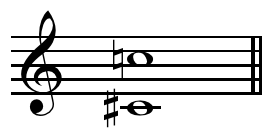 Diminished octave on C♯ = C♮. Just: 48:25 = 1129.33 cents. Equal-tempered: 211/12:1 = 1100 cents.